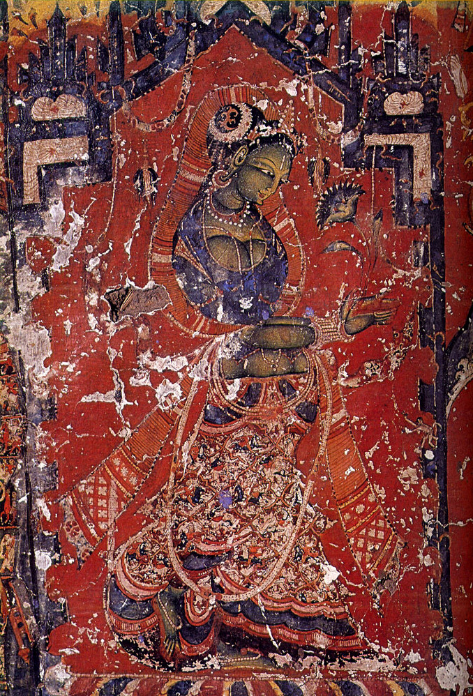 Green Tara. Sumtsek hall at Alci monastery, Ladakh, ca. 11th century